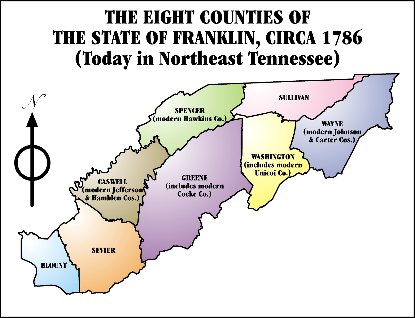 The State of Franklin (1784-1790). State of Franklin was composed of the modern Tennessee counties of: Blount County, Tennessee Carter County, Tennessee Cocke County, Tennessee Greene County, Tennessee Hamblen County, Tennessee Hawkins County, Tennessee Jefferson County, Tennessee Johnson County, Tennessee Sevier County, Tennessee Sullivan County, Tennessee Unicoi County, Tennessee Washington County, Tennessee